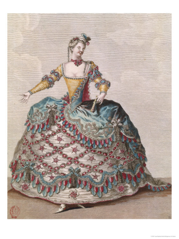 "Indian woman" (costume for the opera-ballet "les Indes galantes" by Jean-Philippe Rameau) (circa-1735)